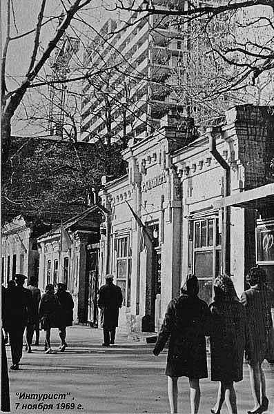 photo